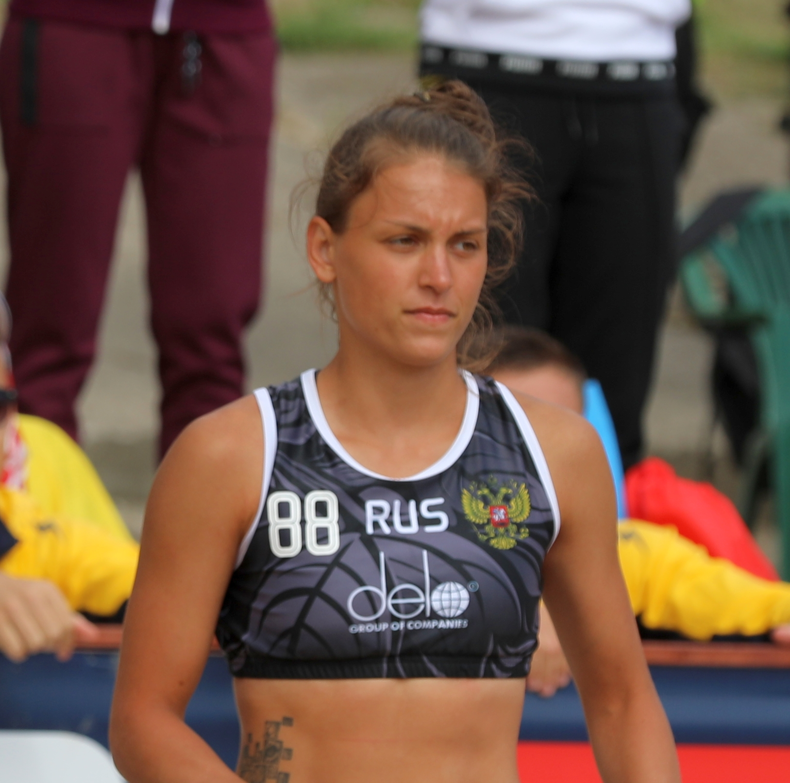 Ekaterina Koroleva at Beach handball Euro; Day 1: 2 July 2019 – Women Preliminary Round Group D – Ukraine-Russia 2:1 (25:20, 14:17; 10:4)